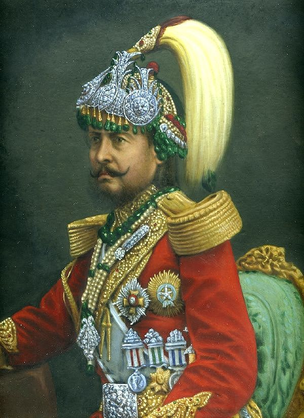 A contemporary portrait of Janga Bahadur Kunwar Ranaji, former Prime Minister of Nepal (1846-1856 & 1857-1877) and Maharaja of Kaski and Lamjung